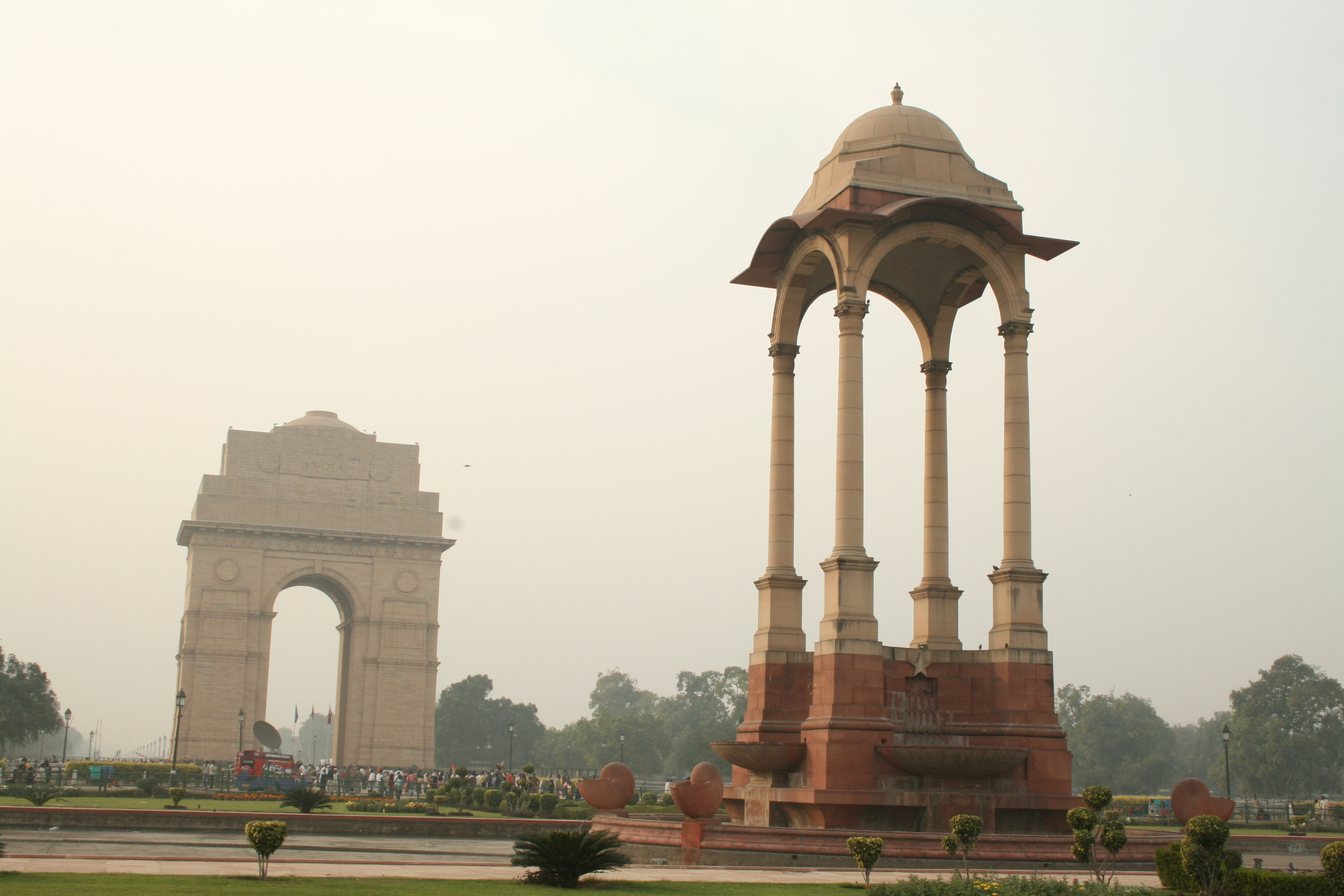 India Gate, Delhi, India